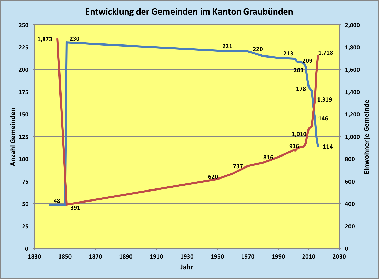 The development of the municipalities in the canton of Graubünden in the last 150 years showing the massive decline since 2000.